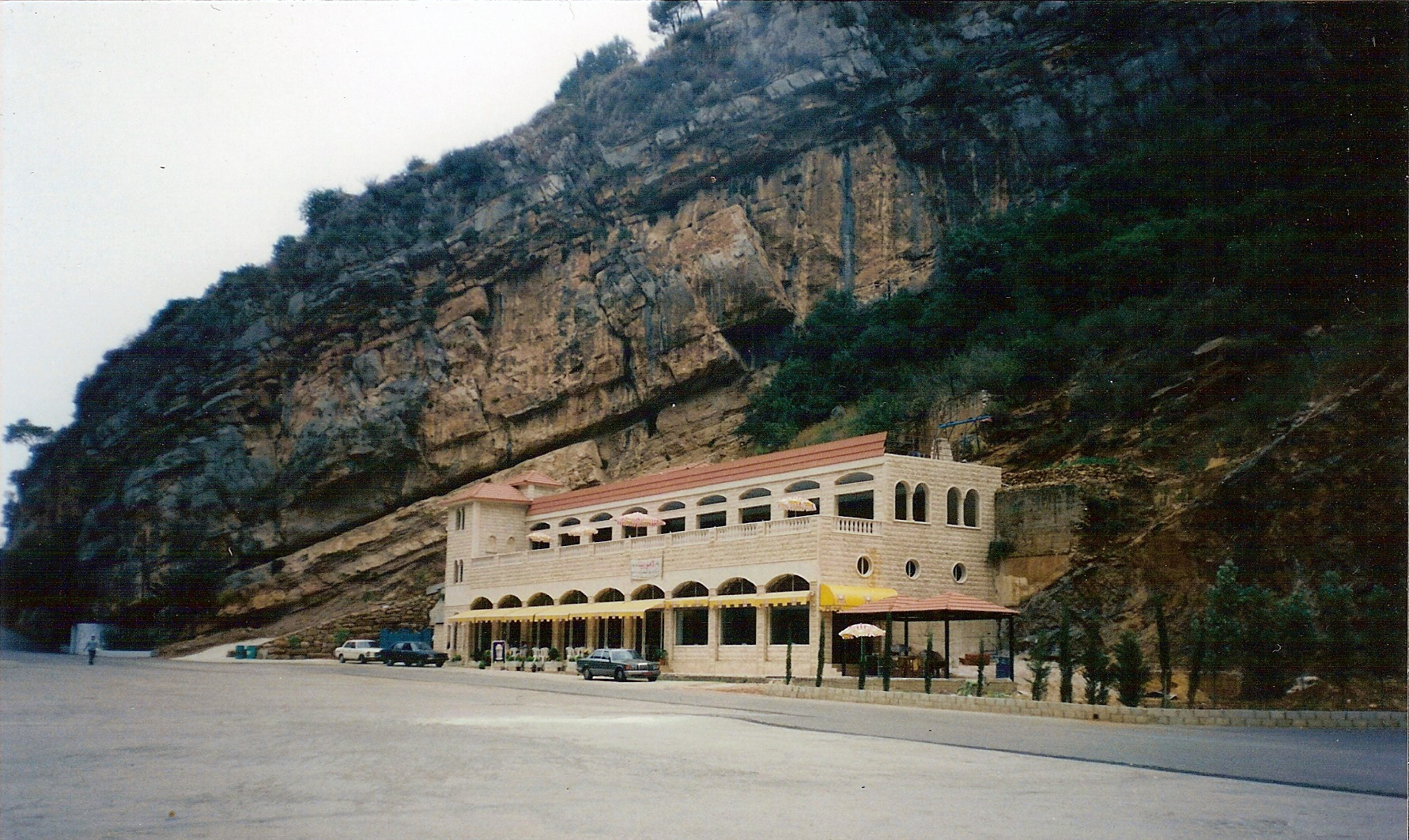 Exterior of the Jeita Grotto, Lebanon.